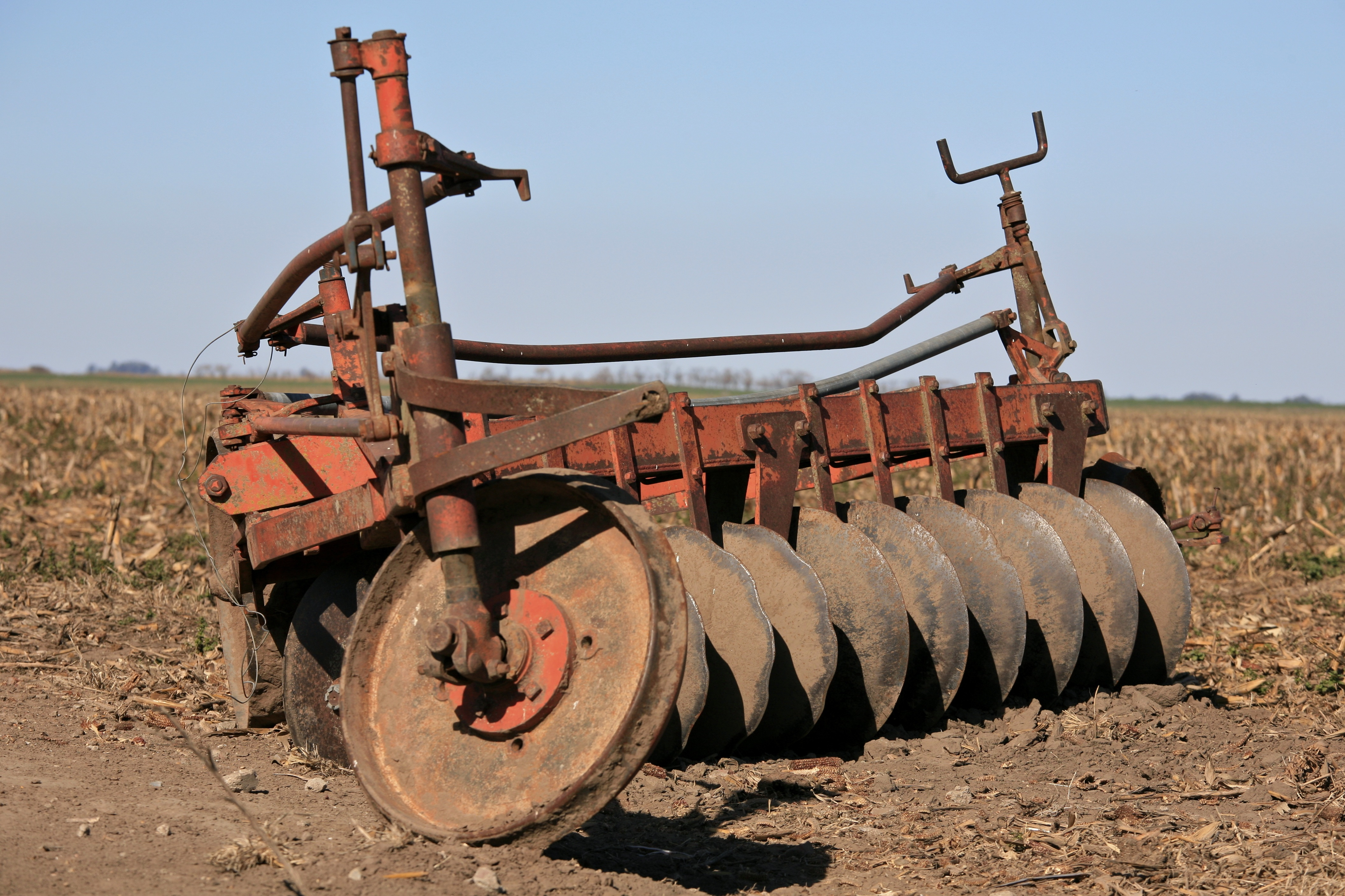 The plough or plow (see spelling differences; /ˈplaʊ/) is a tool used in farming for initial cultivation of soil in preparation for sowing seed or planting. It has been a basic instrument for most of recorded history, and represents one of the major advances in agriculture. The primary purpose of ploughing is to turn over the upper layer of the soil, bringing fresh nutrients to the surface, while burying weeds and the remains of previous crops, allowing them to break down. It also aerates the soil, and allows it to hold moisture better. In modern use, a ploughed field is typically left to dry out, and is then harrowed before planting.